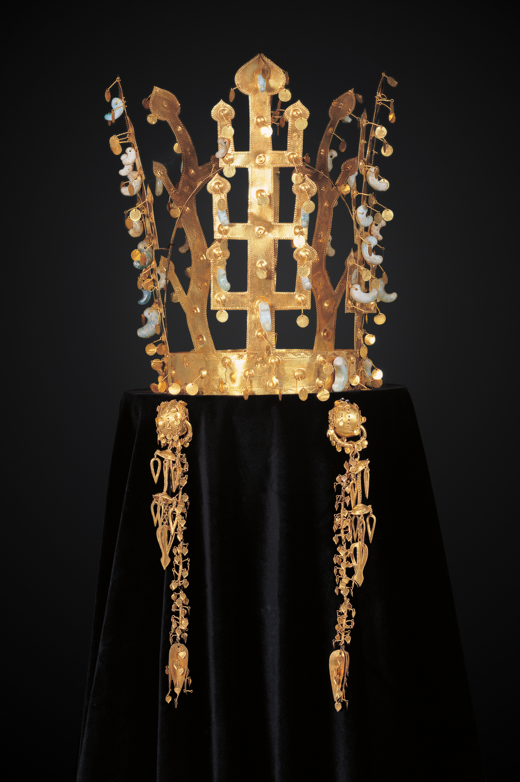 Royal crown of Silla, second half of the fifth century. Gold and jade, Seobongchong tumulus excavated in 1926. National Museum of Korea, Seoul